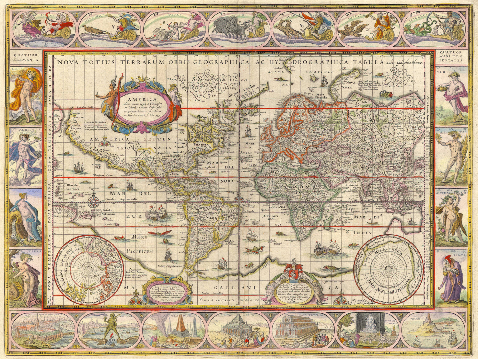 Nova Totius Terrarum Orbis Geographica Ac Hydrographica Tabula; size=41 x 54 cm. The hand colouring varies by specific prints, in this version the figure for Ignis (fire) has a bright orange cape.